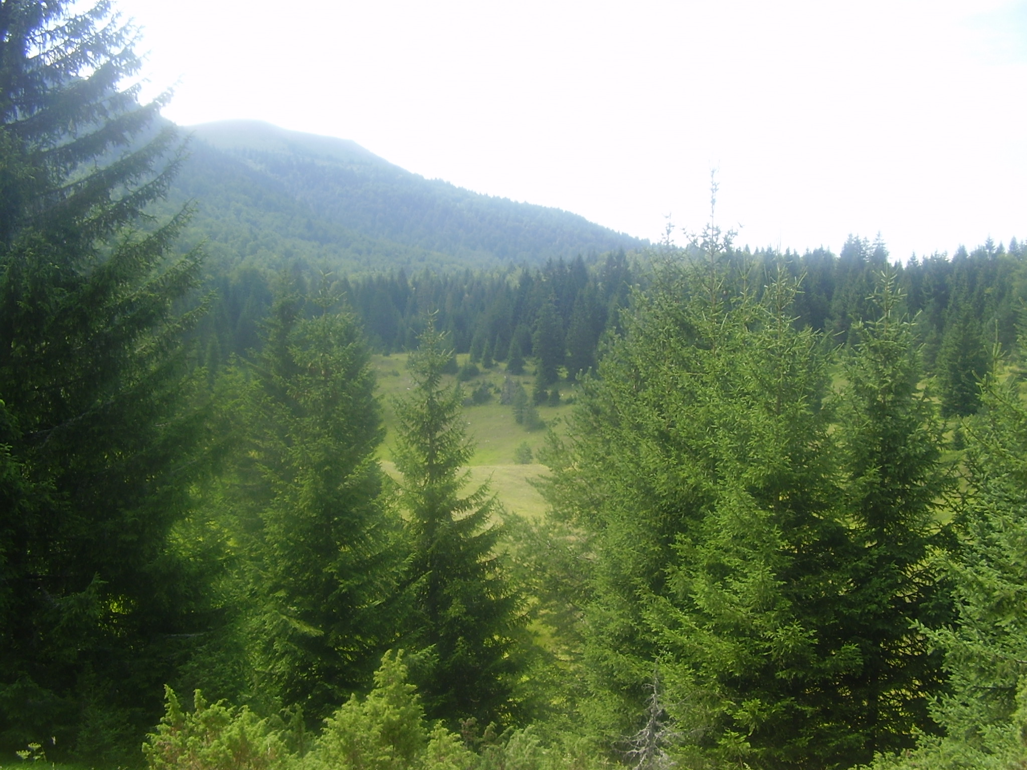 Raduša, Uskoplje